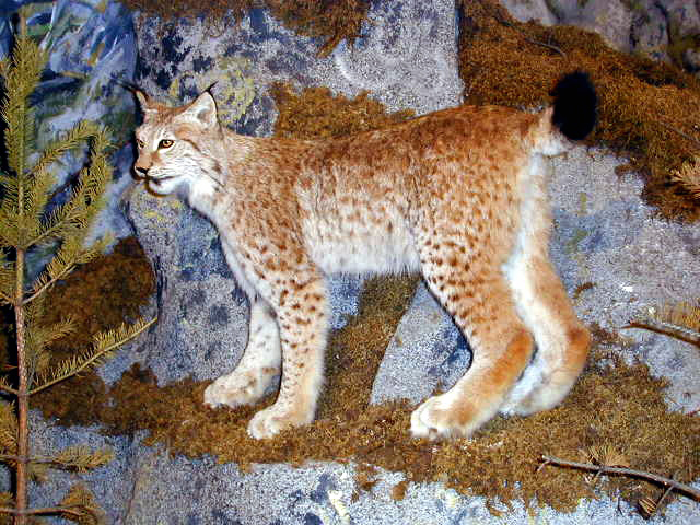 Eurasian Lynx of Scandinavian type (Lynx lynx lynx) Photo: ToB, June 26th 2003